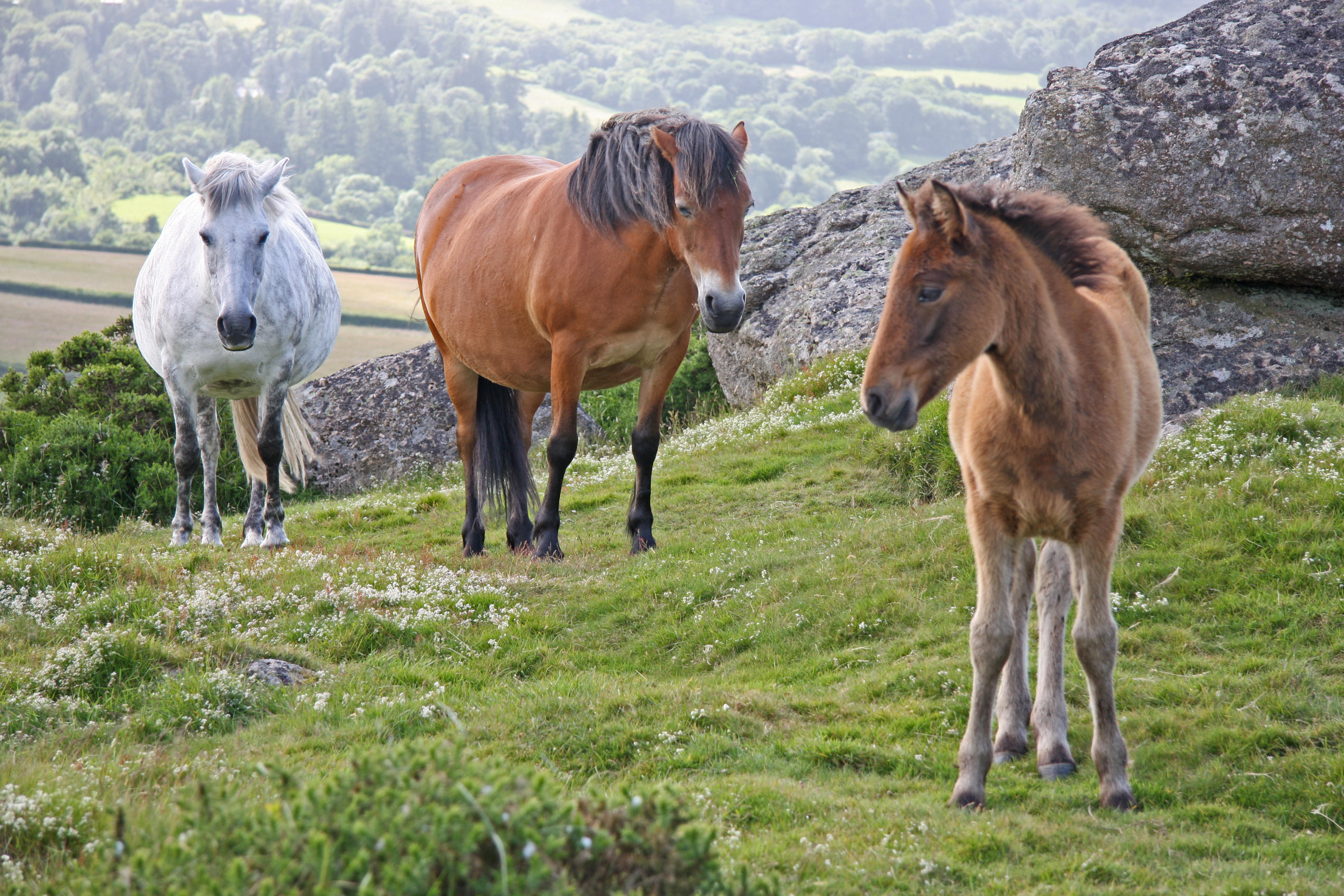 Too big for ponies?